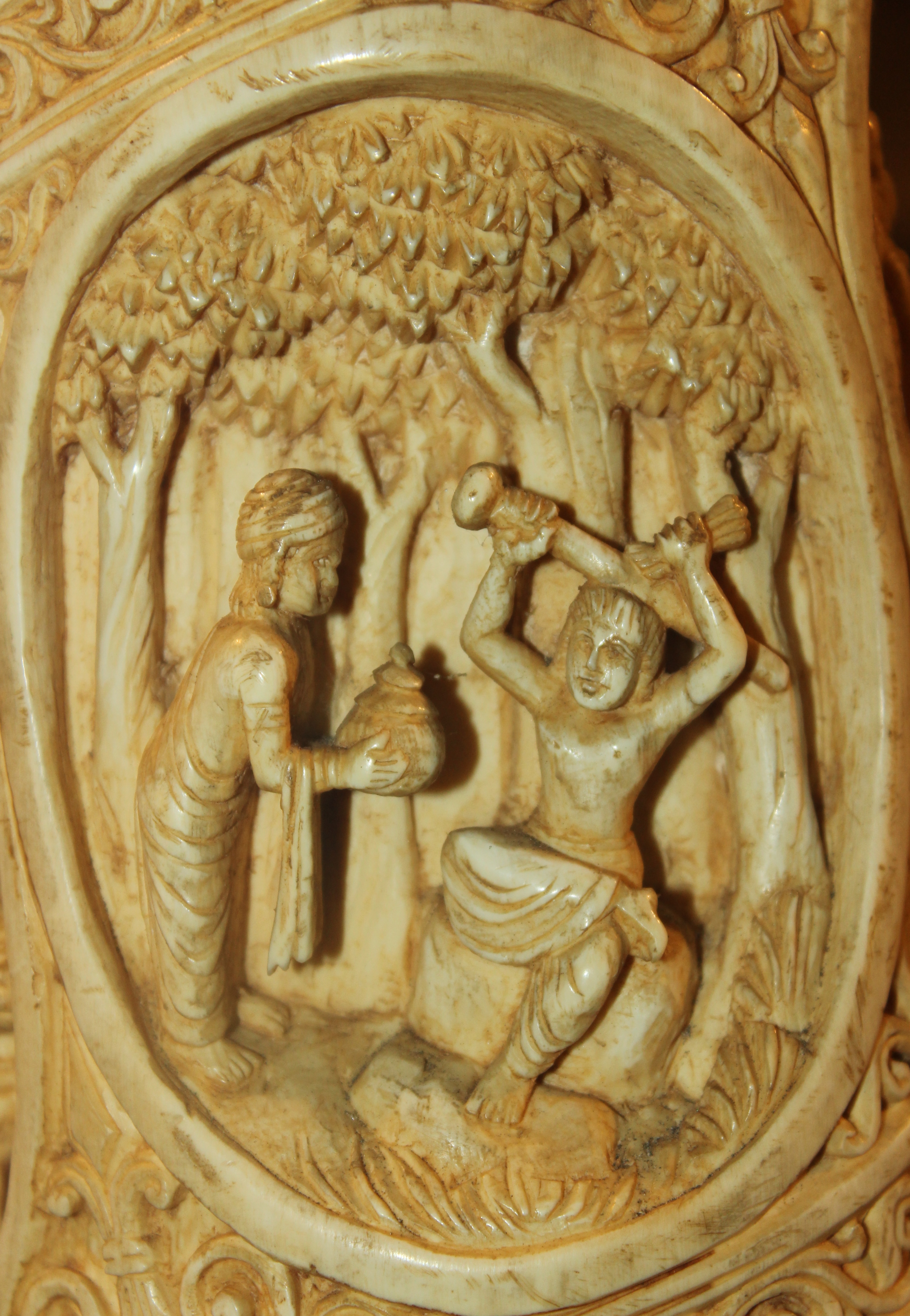 Roundel 19: Siddhartha cuts his hair and removes his jewellery and costume